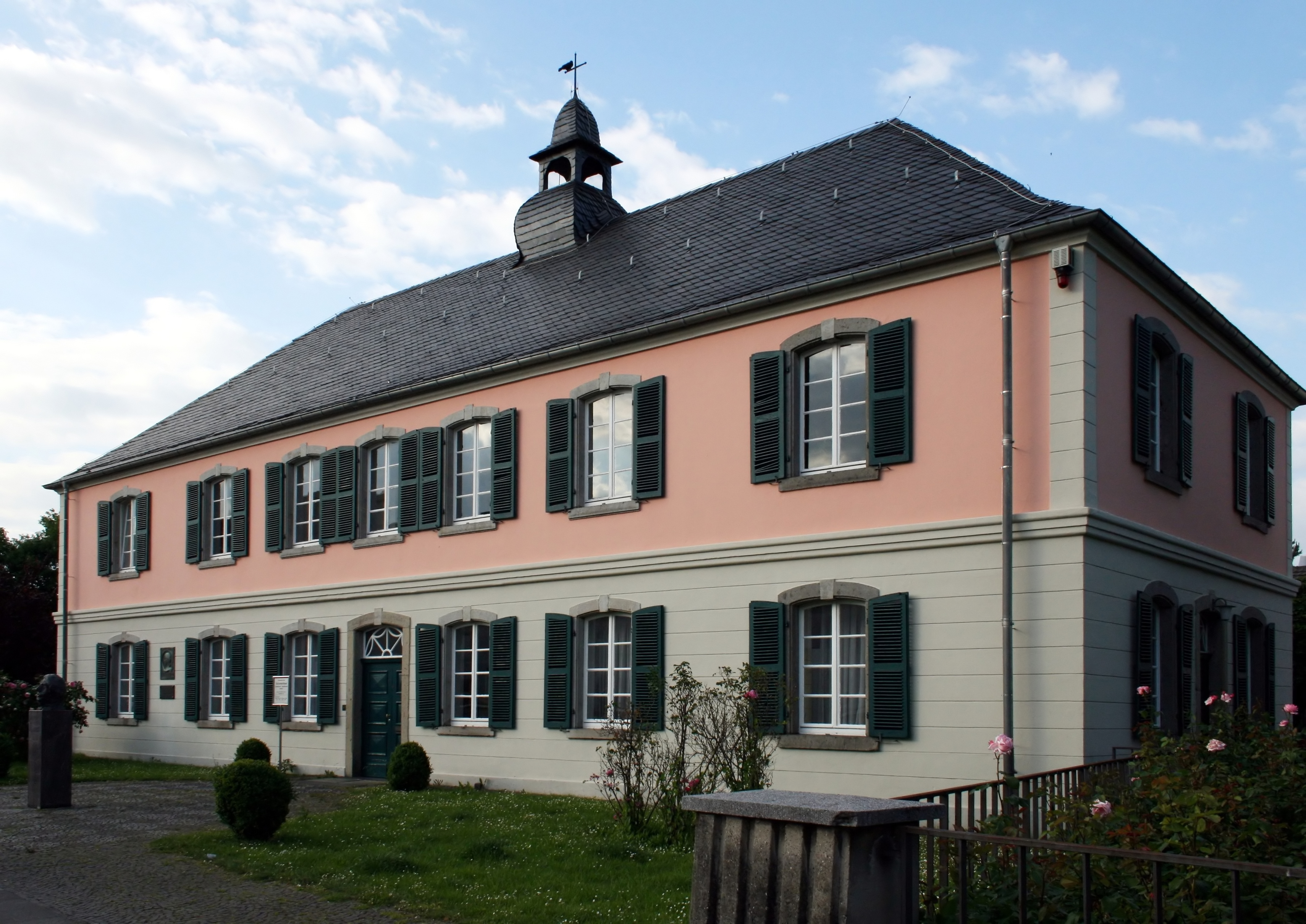 Germany, Bonn-Endenich: former private psychiatric clinic/house of death Robert Schumann ("Schumannhaus"). Now used as a memorial and music library.